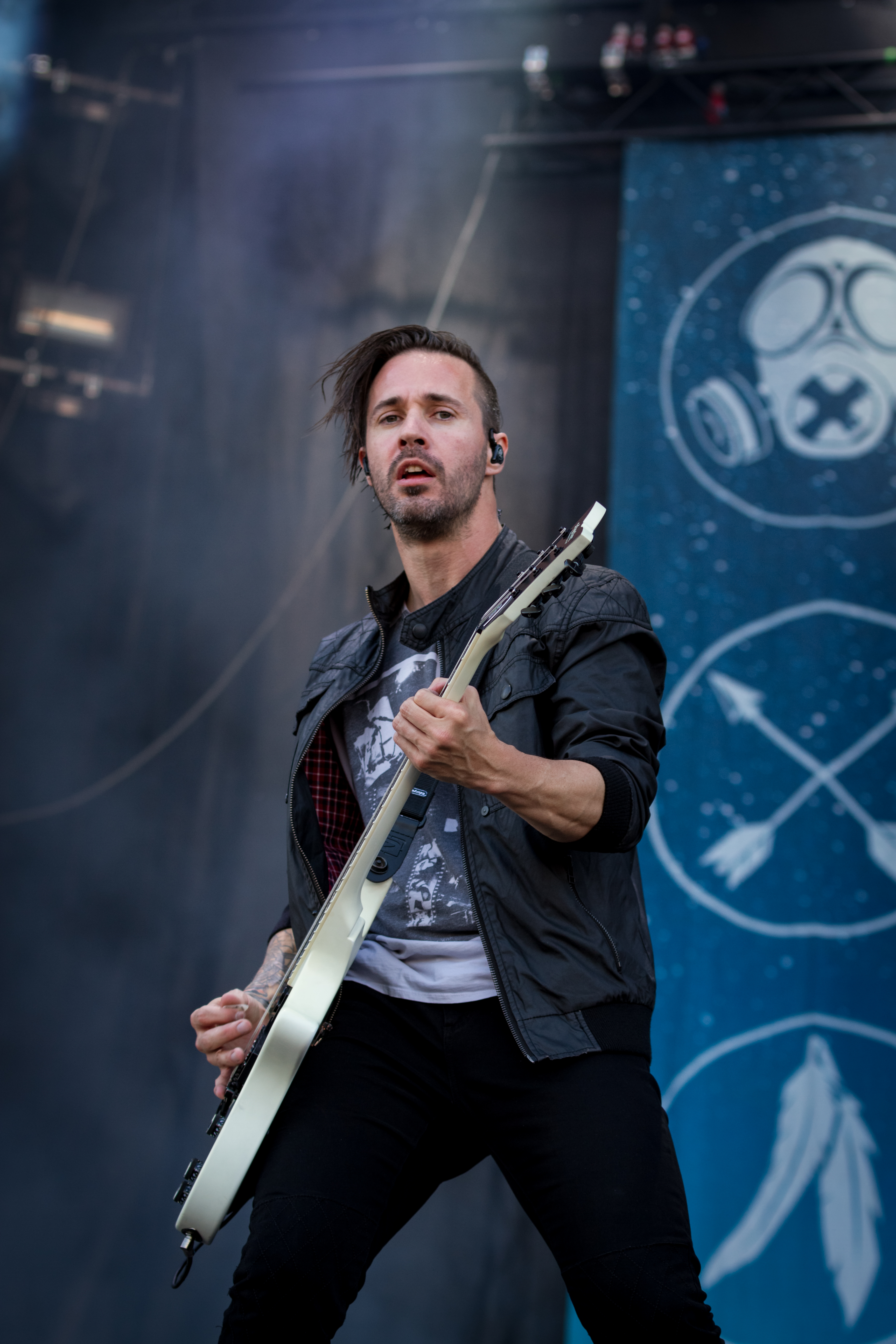 Papa Roach - Rock am Ring 2015